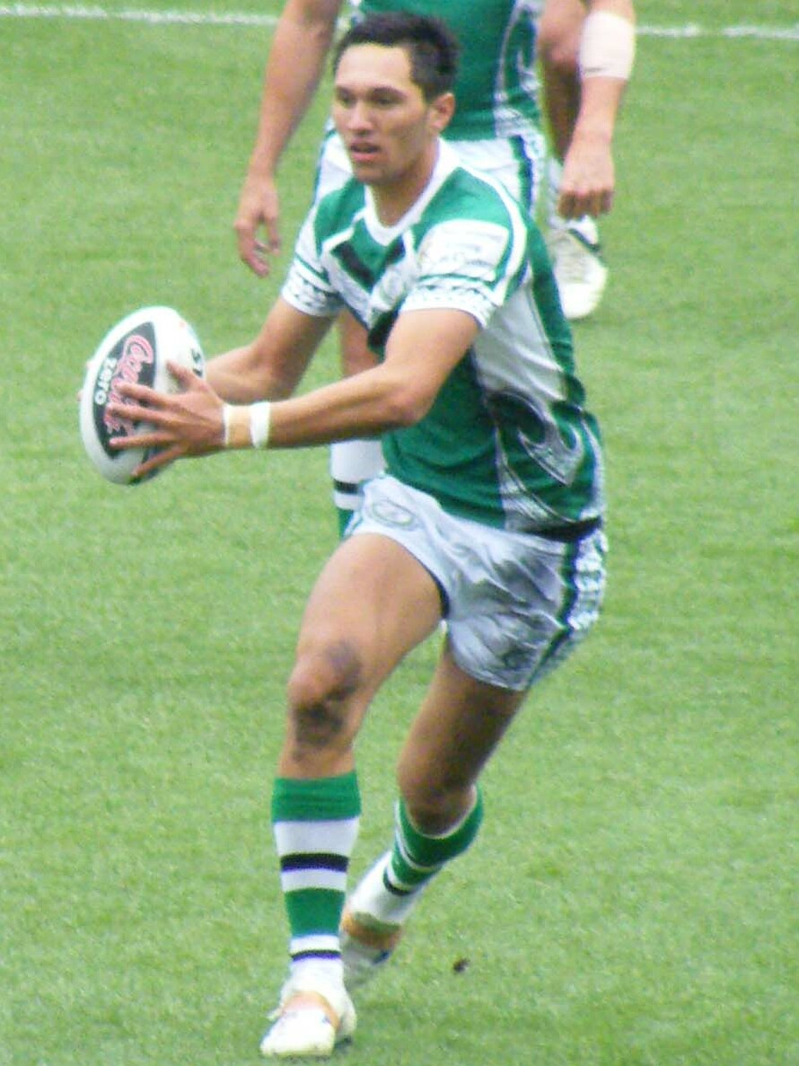 Maori Winger Jordon Rapana. RLWC 2008 Aboriginal dreamtime team versus New Zealand Maori.